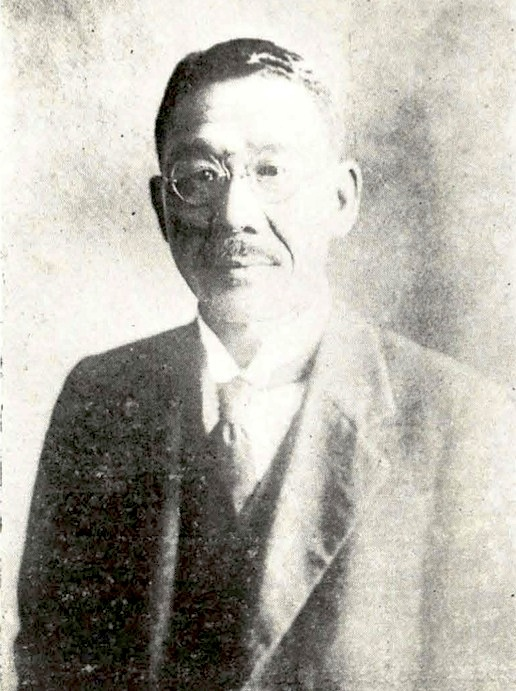 Imura Daikichi